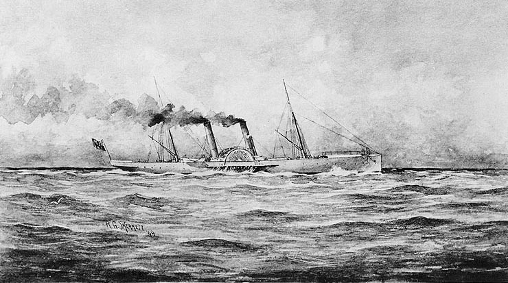 Photo #: NH 54434 Blockade Runner Banshee (1862) Halftone reproduction of an artwork by R.G. Skerrett, 1899. U.S. Naval Historical Center Photograph, License: "To the best of our knowledge, the pictures provided in the Online Library of Selected Images are all in the Public Domain, and can therefore be freely downloaded and used for any purpose."